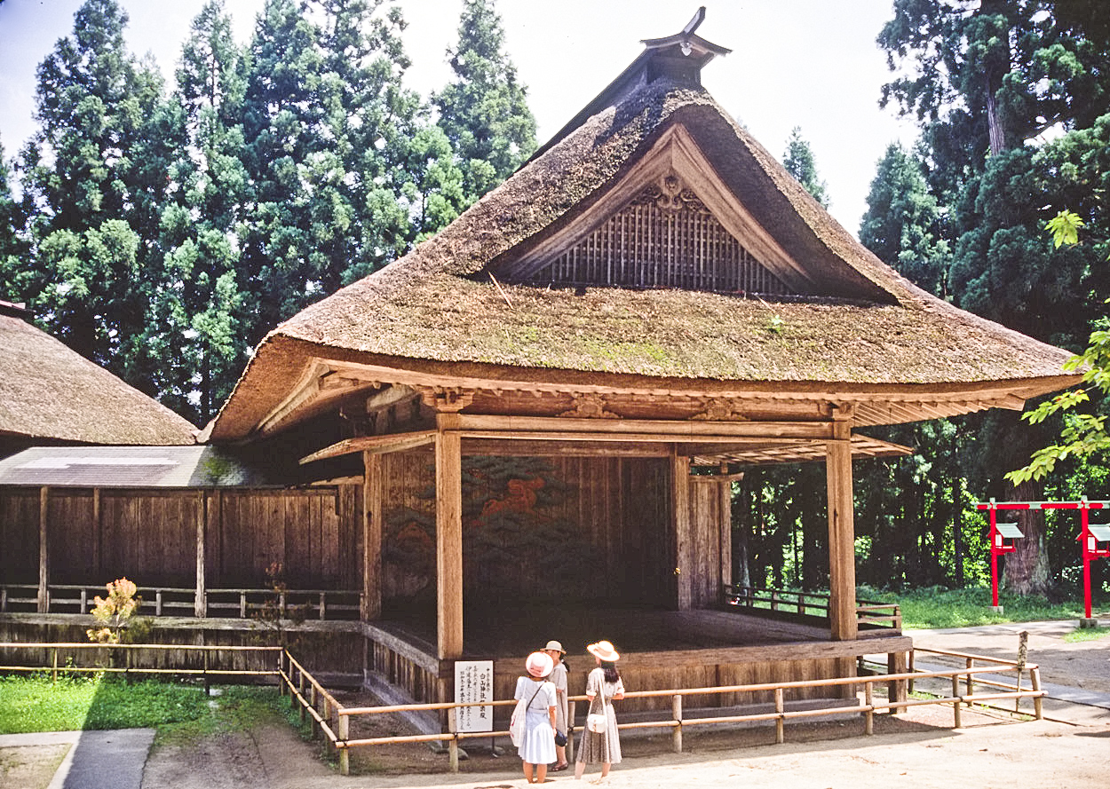 Nōgakuden (Noh Stage) of the Hakusan Shrine Place - Hakusan Shrine at Chūson-ji temple, Hiraizumi, Iwate prefecture, Japan. This was rebuilt in 1853. Designated as an important cultural property of Japan.